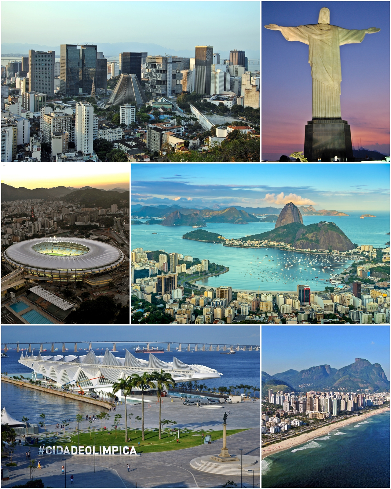 Photo montage of the city of Rio de Janeiro, Brazil. From the top, clockwise: panorama of the buildings of the Centro; statue of Christ the Redeemer on Corcovado; Sugarloaf Mountain with Botafogo's beach; Barra da Tijuca beach with the Pedra da Gávea at background; Museum of Tomorrow in Plaza Mauá with Rio–Niterói Bridge at background and tram of Santa Teresa.